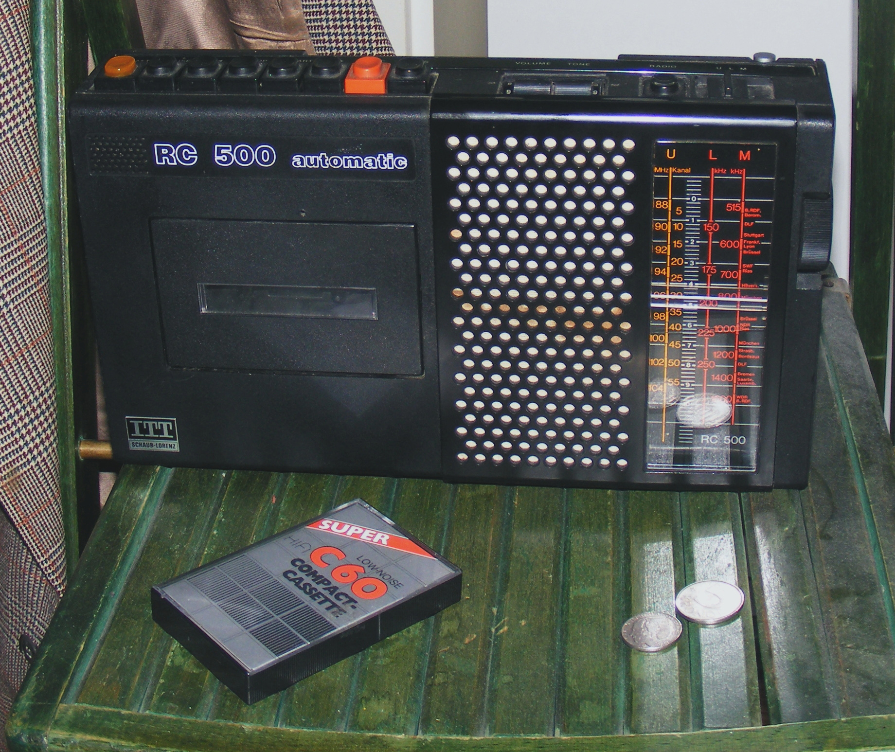 a radio with a built-in cassette player made by West German ITT Schaub-Lorenz in the mid-70's